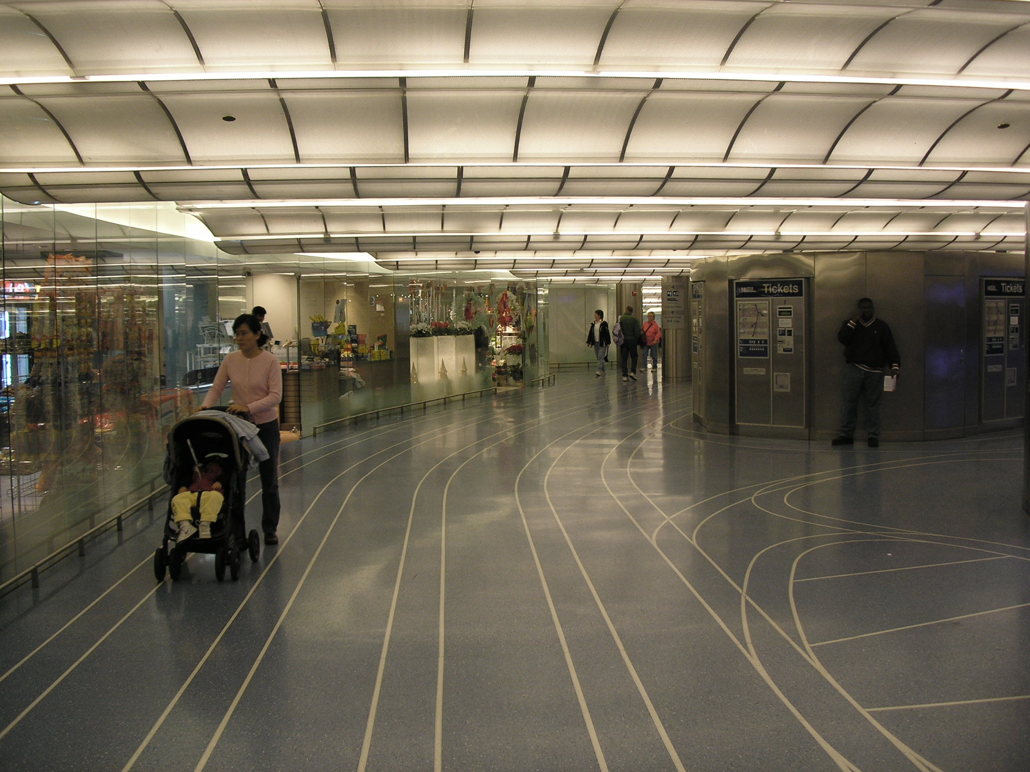 Interior view of the Randolph Street Terminal (Millenium Station) in Chicago.